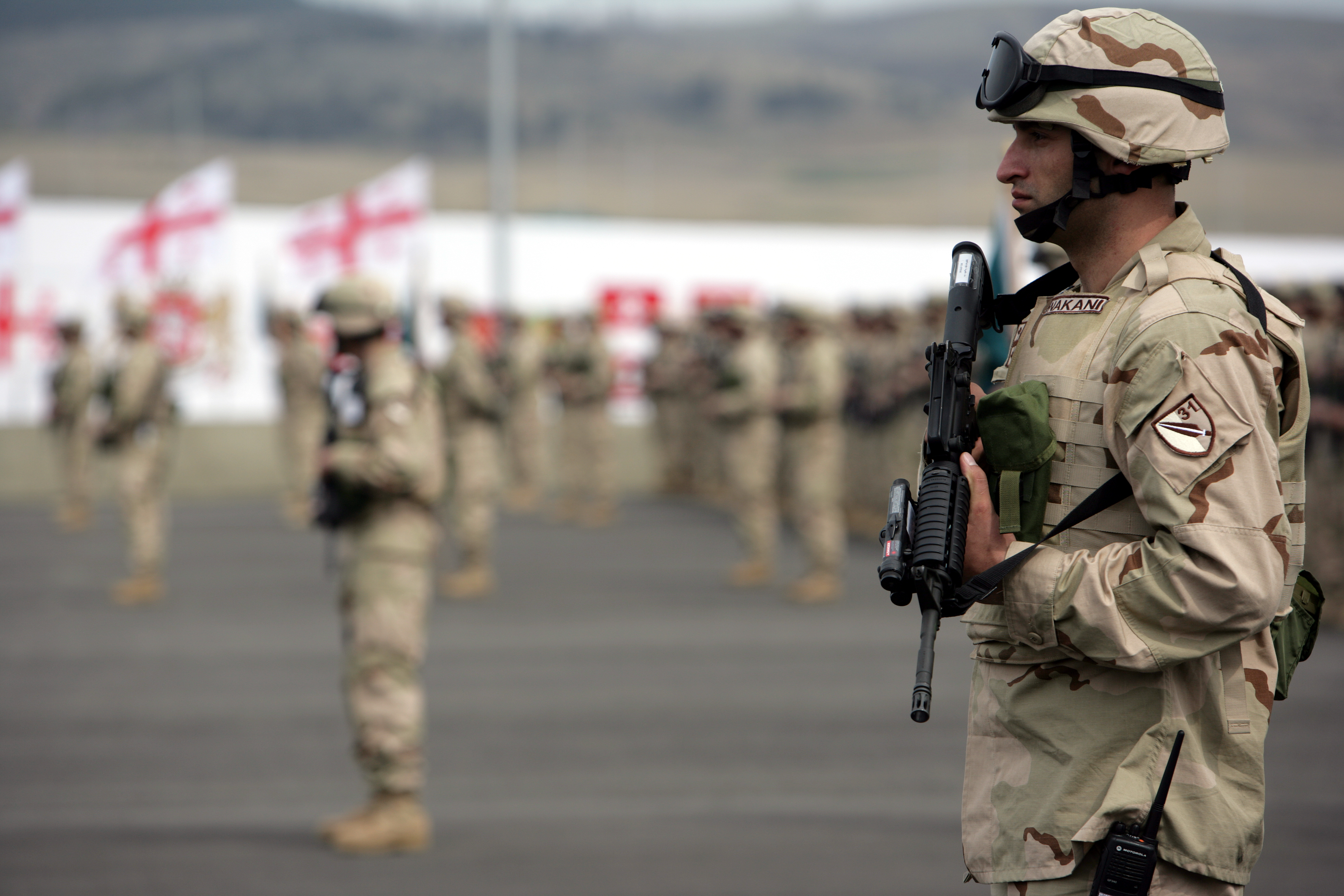 A Republic of Georgia soldiers stands in formation during a ceremony marking the historic deployment of the Republic of Georgia's 31st Light Infantry Battalion to support Marine Expeditionary Brigade Afghanistan.